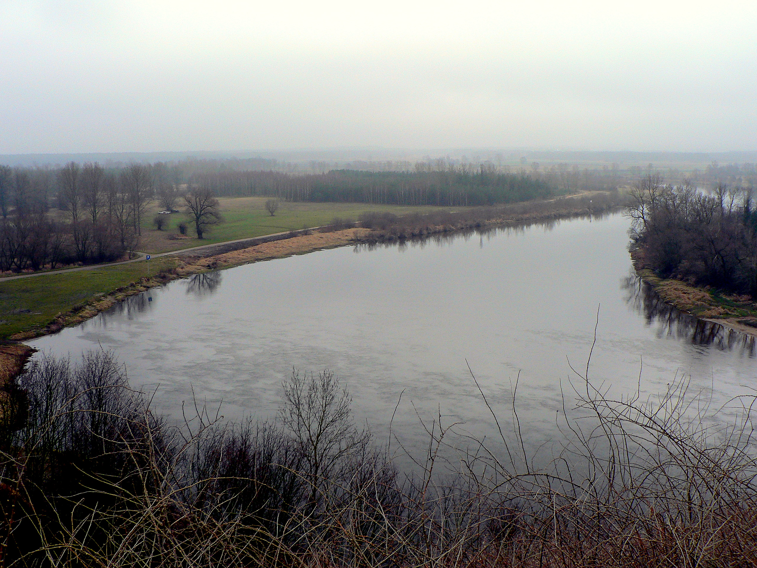 Bend of Bug River in Drohiczyn, Poland